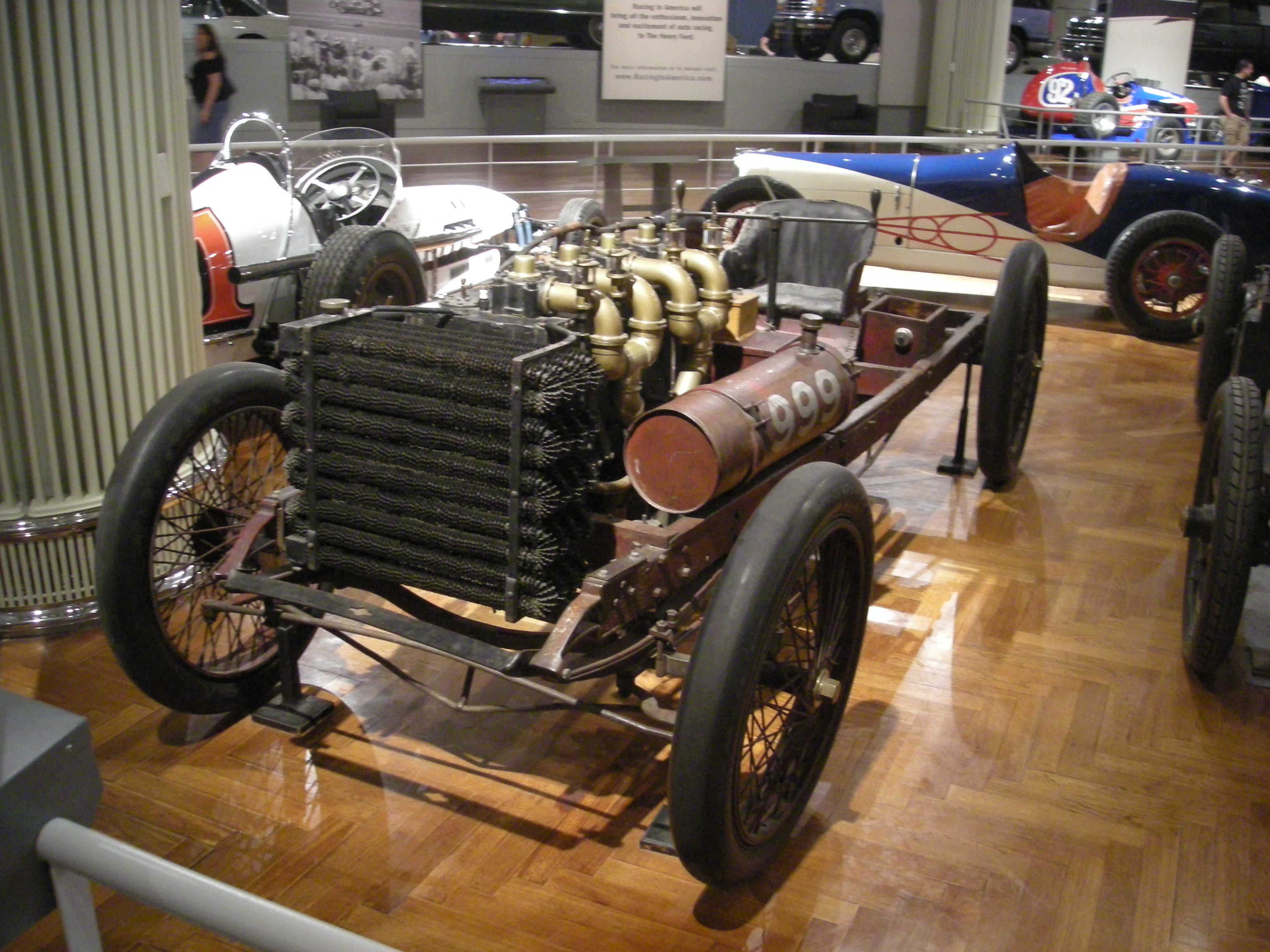 A 1902 Ford "999" on display at the Henry Ford Museum in Dearborn, Michigan (United States).